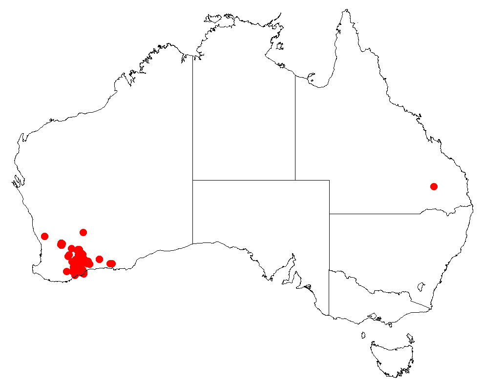 Hakea strumosa Occurrence data downloaded from Australasian Virtual Herbarium on 22 November 2018 using